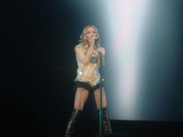 Concert